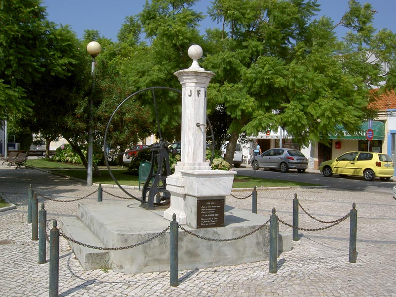 Chafariz da Roda in Samouco. A memorial to a former spring of water.